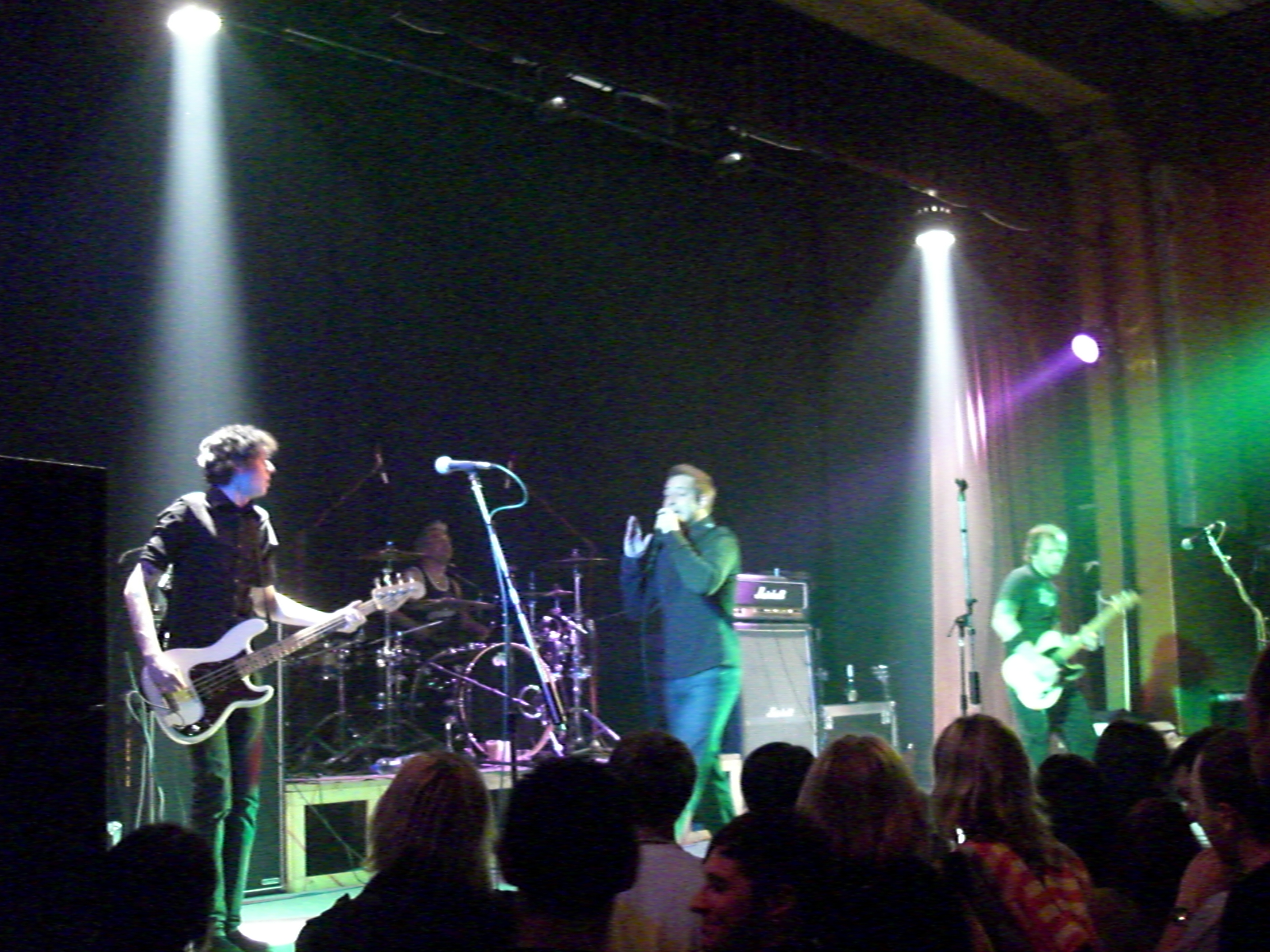 Czech music band Clou - Divadlo pod Čarou, Písek